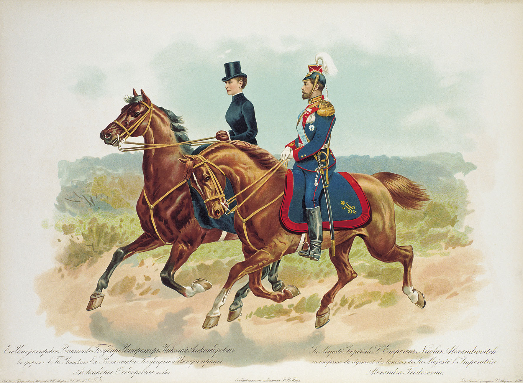 Nicholas II in the uniform of Her Majesty's Ulan Guards Regiment.